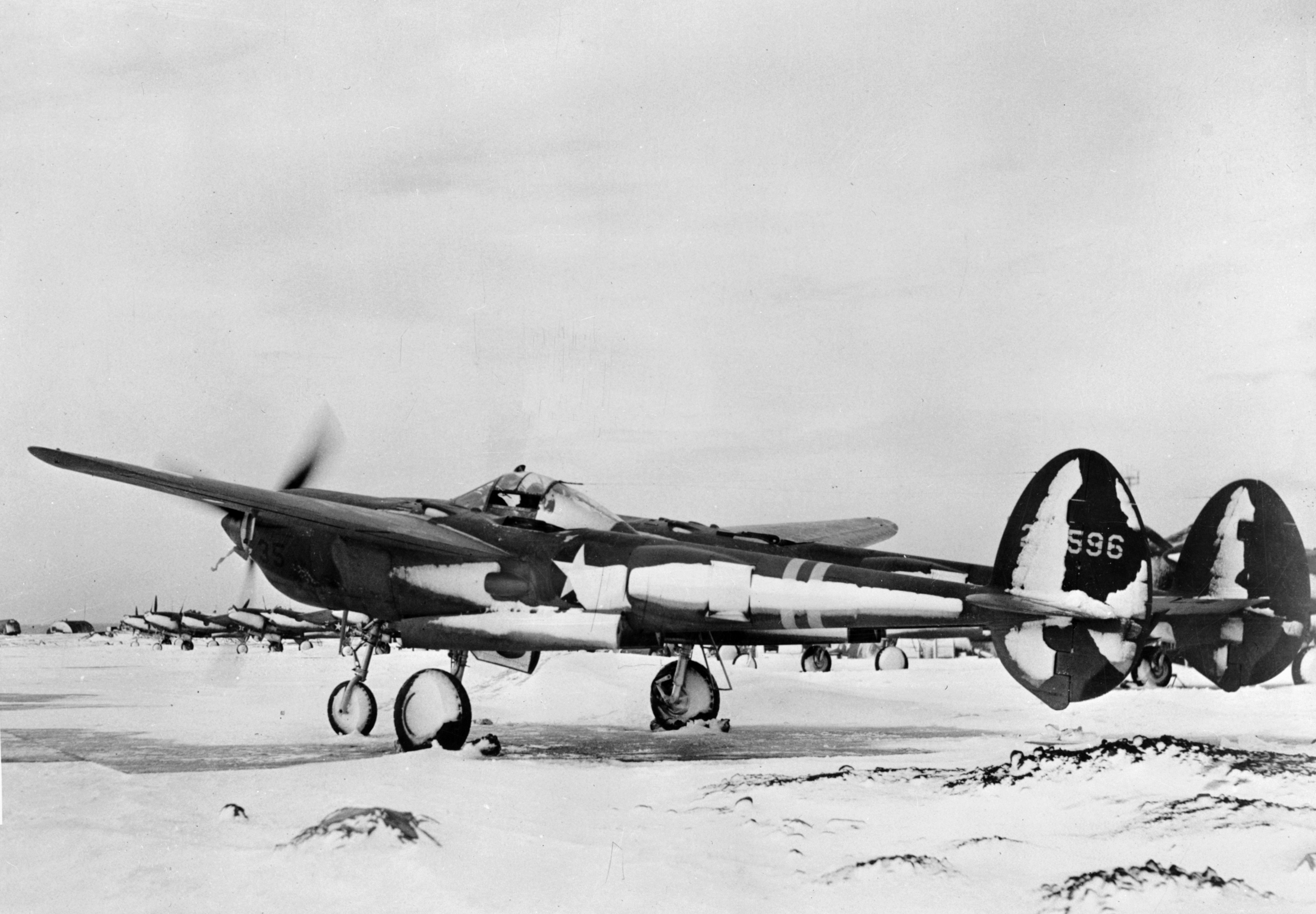 A USAAF Lockheed P-38F-5-LO Lightning fighter (s/n 42-12596) of the 50th Fighter Squadron, 14th Fighter Group, at Camp Tripoli airfield, Iceland, November 1942.